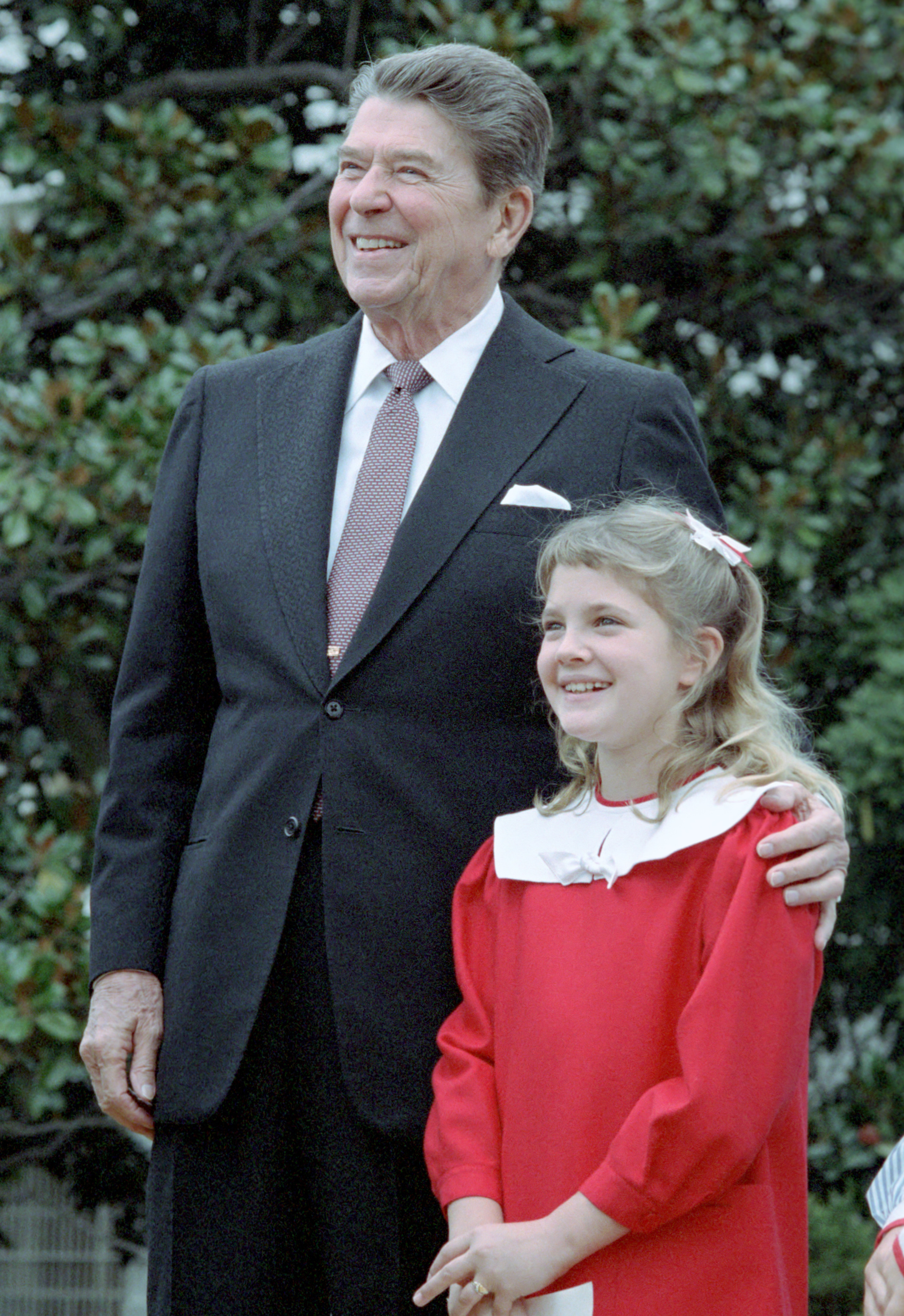 President Reagan with Drew Barrymore at a ceremony launching the Young Astronauts program on the south lawn. October 17, 1984